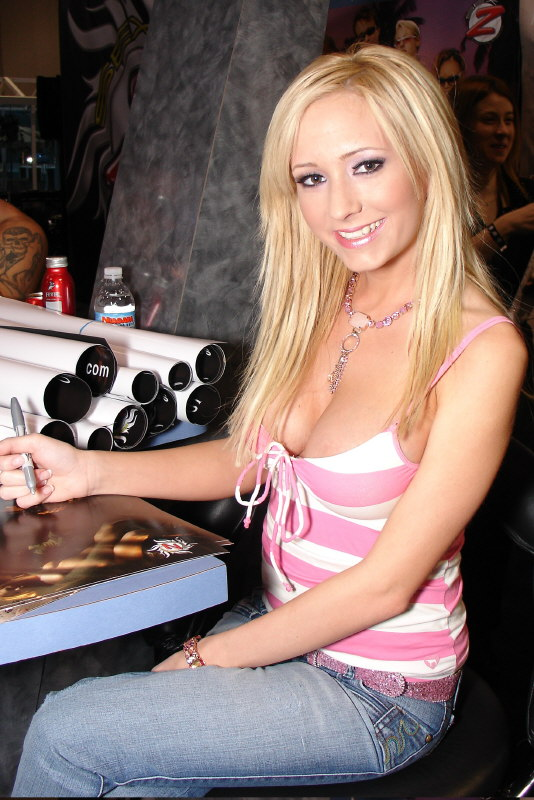 depicted person: Hillary Scott (age: 23.95)